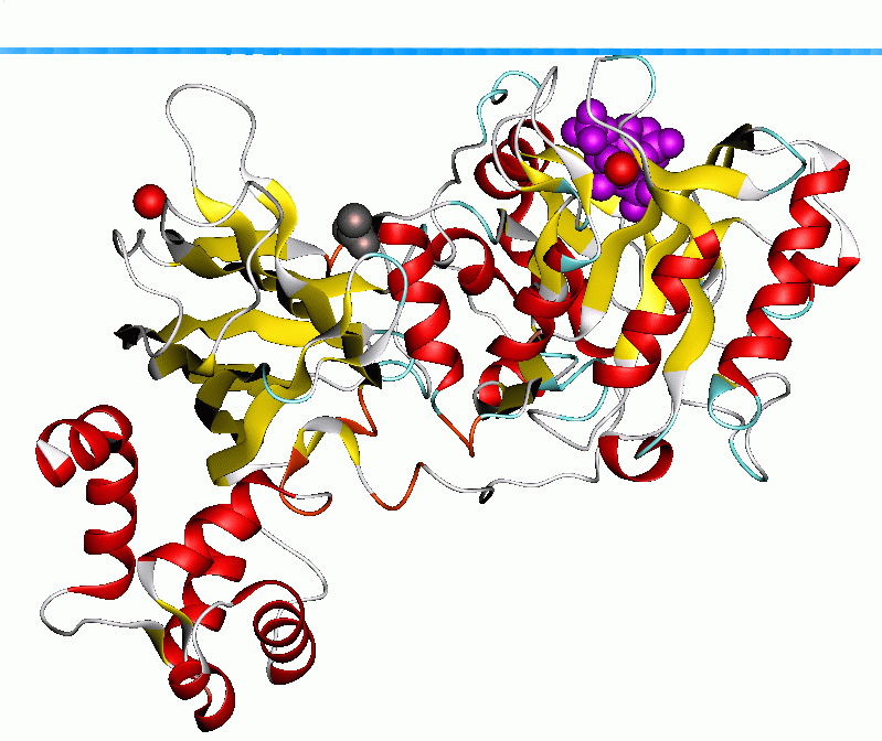 Protein image from OPM database